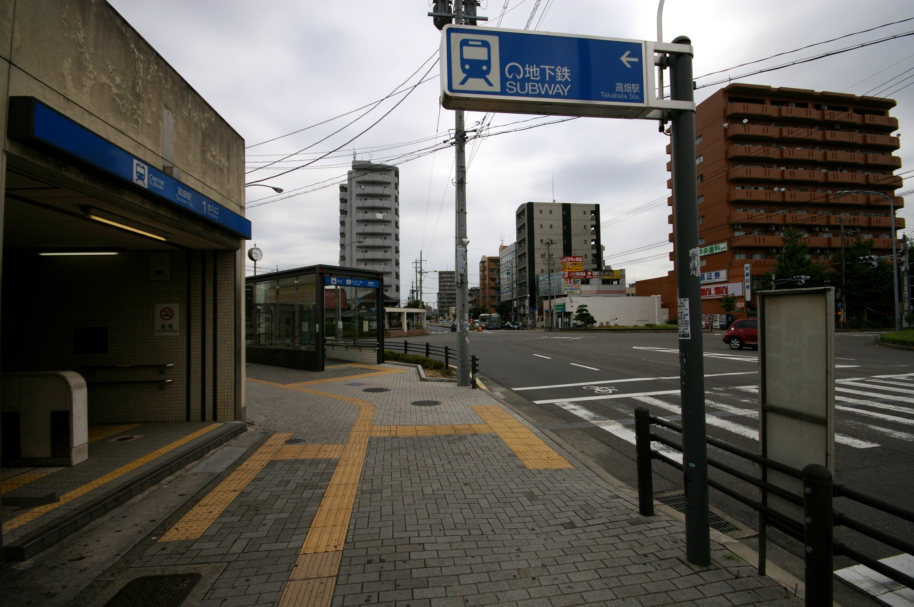 Nagoya Takabata Subway Station